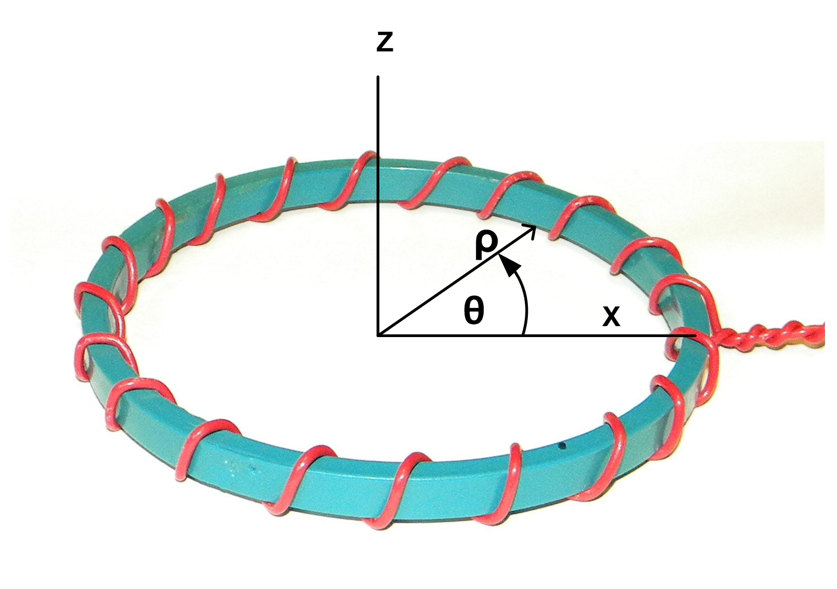 A toroidally shaped inductor and definition of the cylindrical coordinate system used for this section. Caption Cylindrical coordinates are used. The Z axis is the nominal axis of symmetry. The X axis chosen arbitrarily to line up with the starting point of the winding. ρ is called the radial direction. θ is called the circumferential direction.